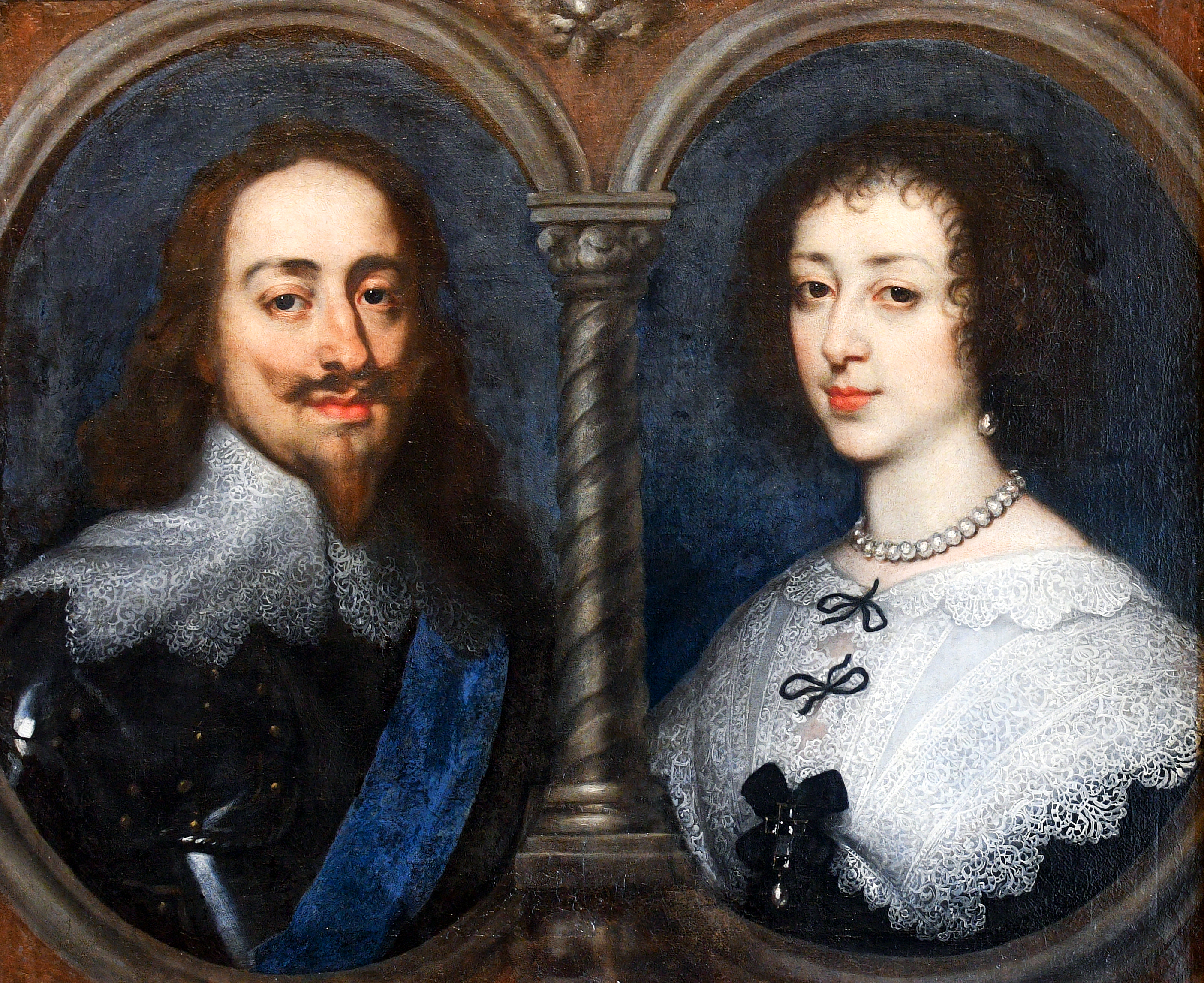 Charles I of England and Henrietta of France - Anthony van Dyck